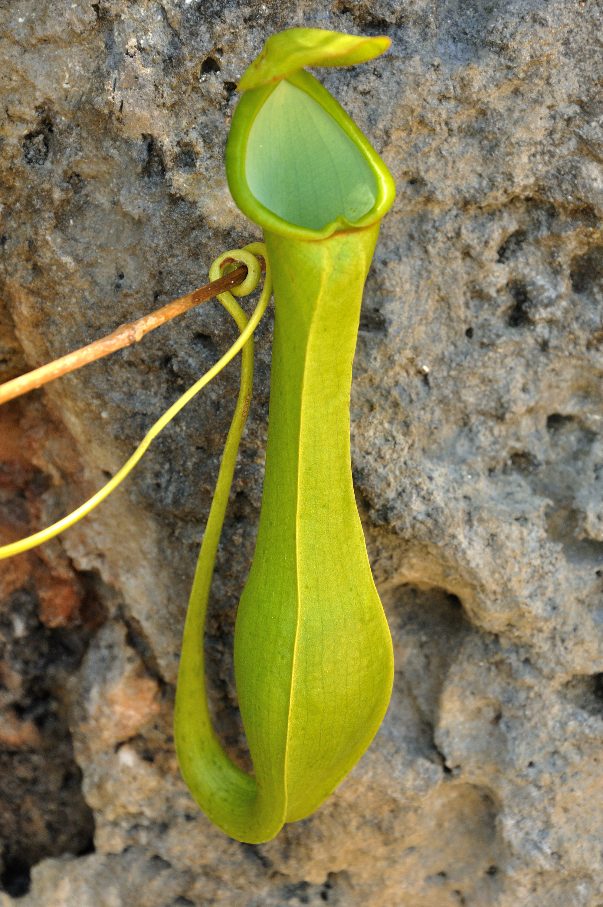 Nepenthes viridis upper pitcher, photographed on an islet off Dinagat, Philippines